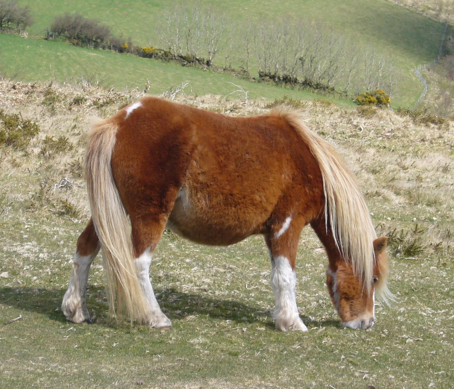 Dartmoor Hill pony on Hameldon on Dartmoor.